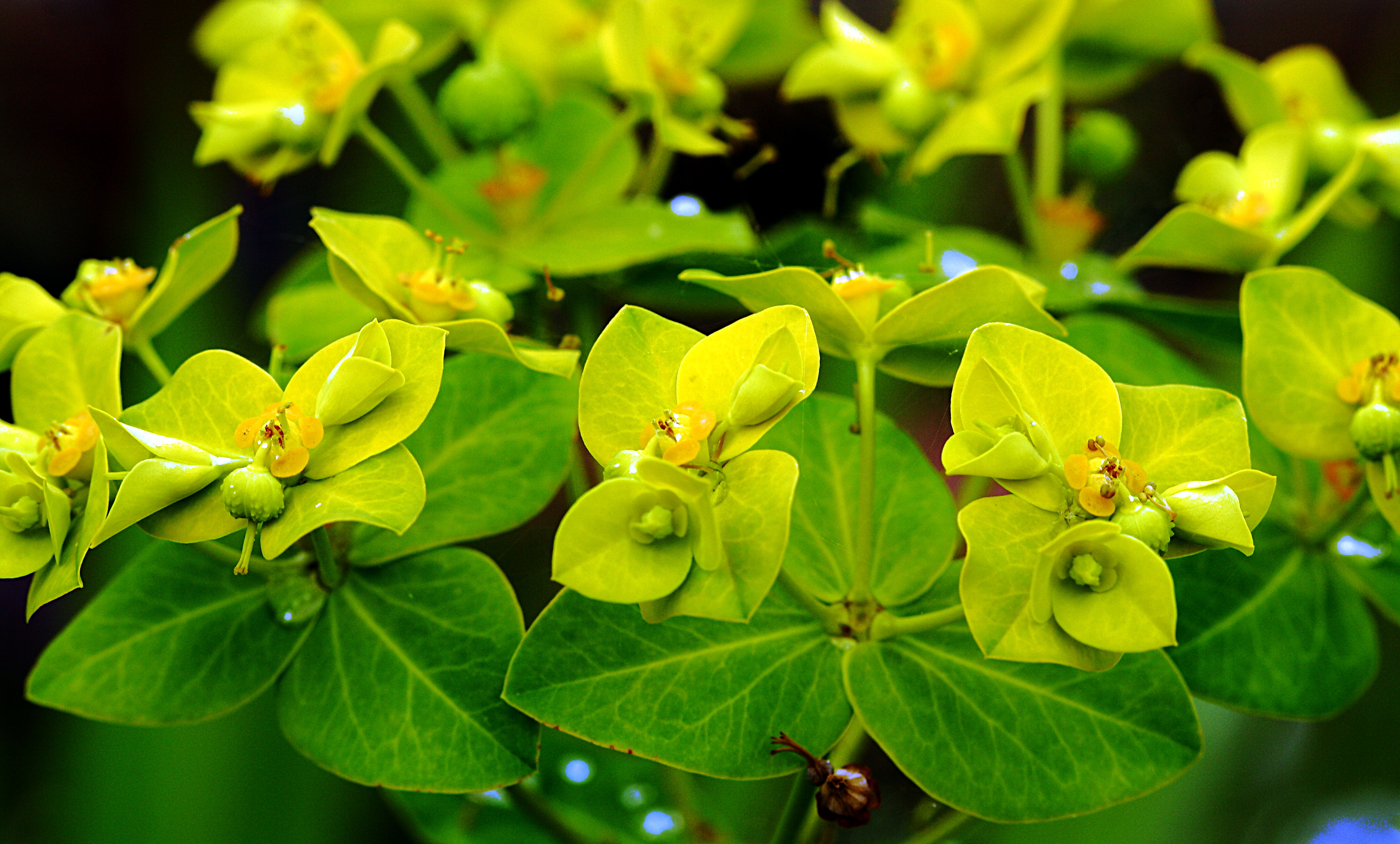 Euphorbia_cornigera_'Goldener_Turm'_-_Hohe_Wolfsmilch